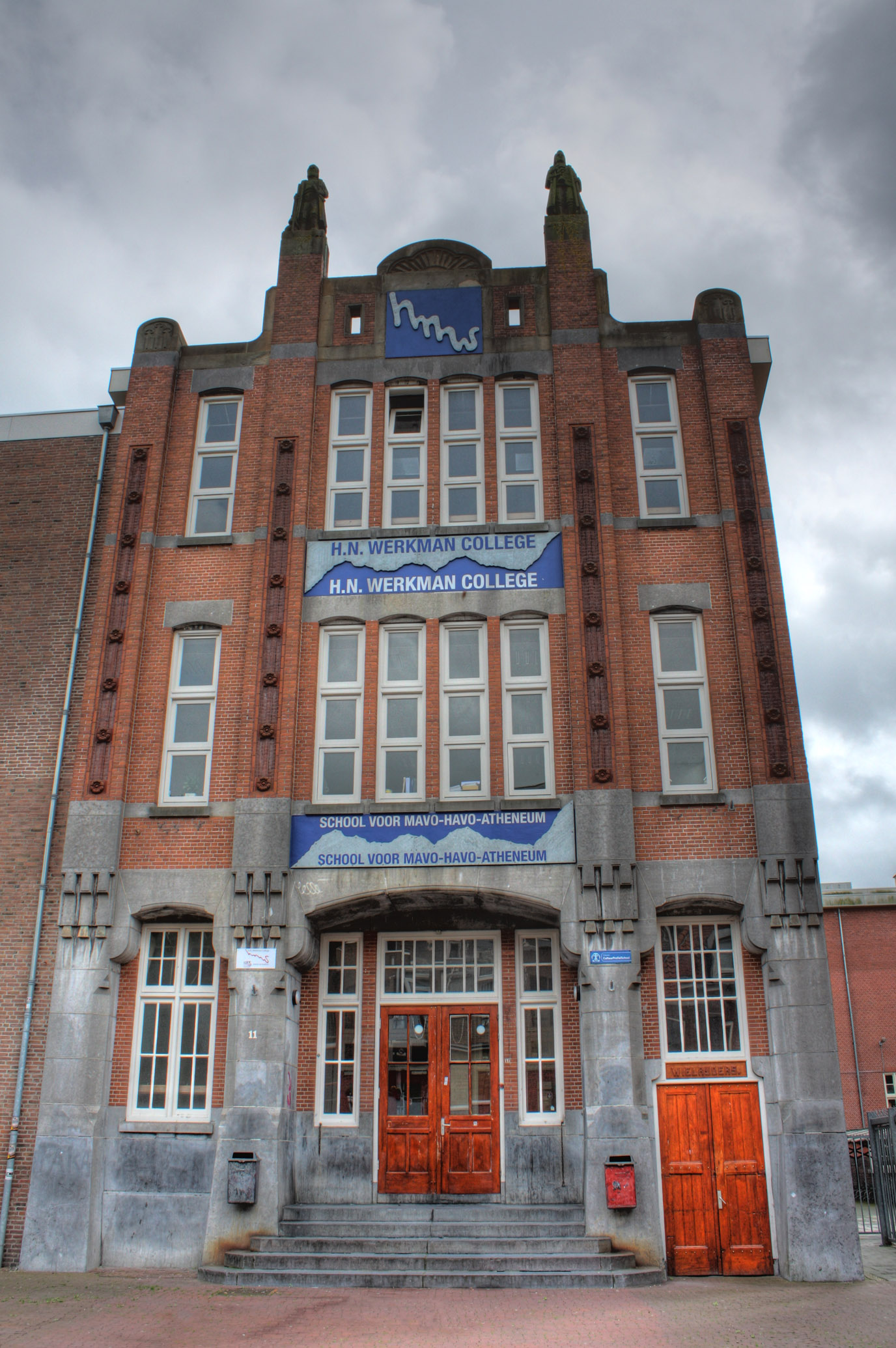 H.N. Werkman College in Groningen, the Netherlands